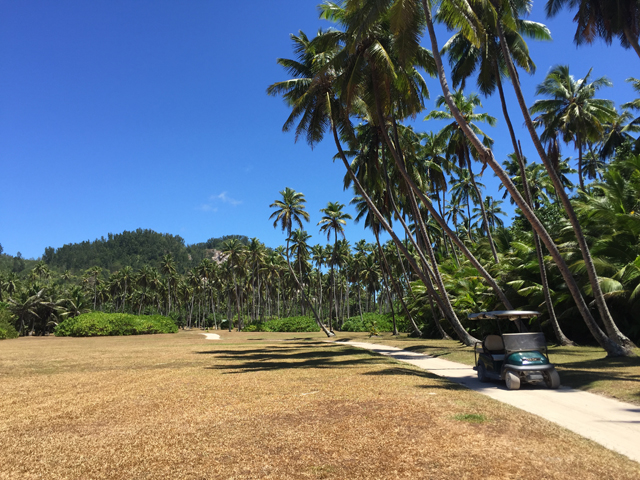 The island's flat central plateau (top) is still dominated by tall coconut palms, which can be traversed easily by eco-friendly electric buggies.